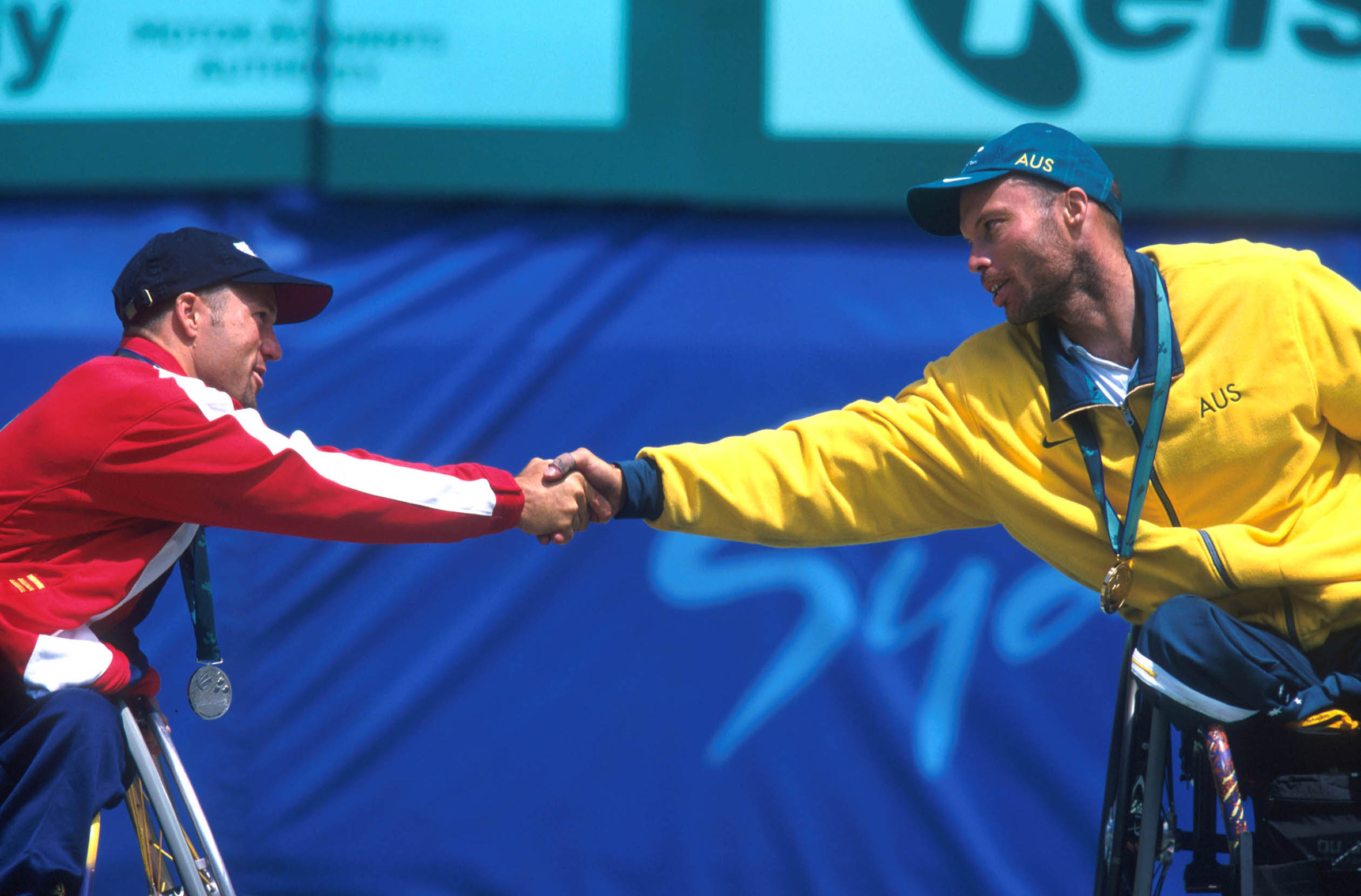 Australian wheelchair tennis player David Hall shakes hands with USA's Steven Welch at the 2000 Sydney Paralympic Games. Hall won gold in the Men's Singles and Welch won silver.